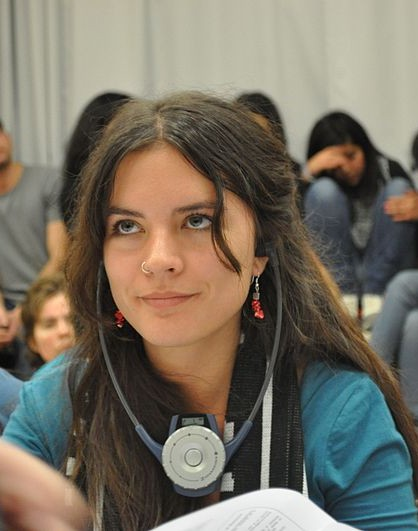 Conference / Meeting at the Confederation of German Trade Unions in Frankfurt.